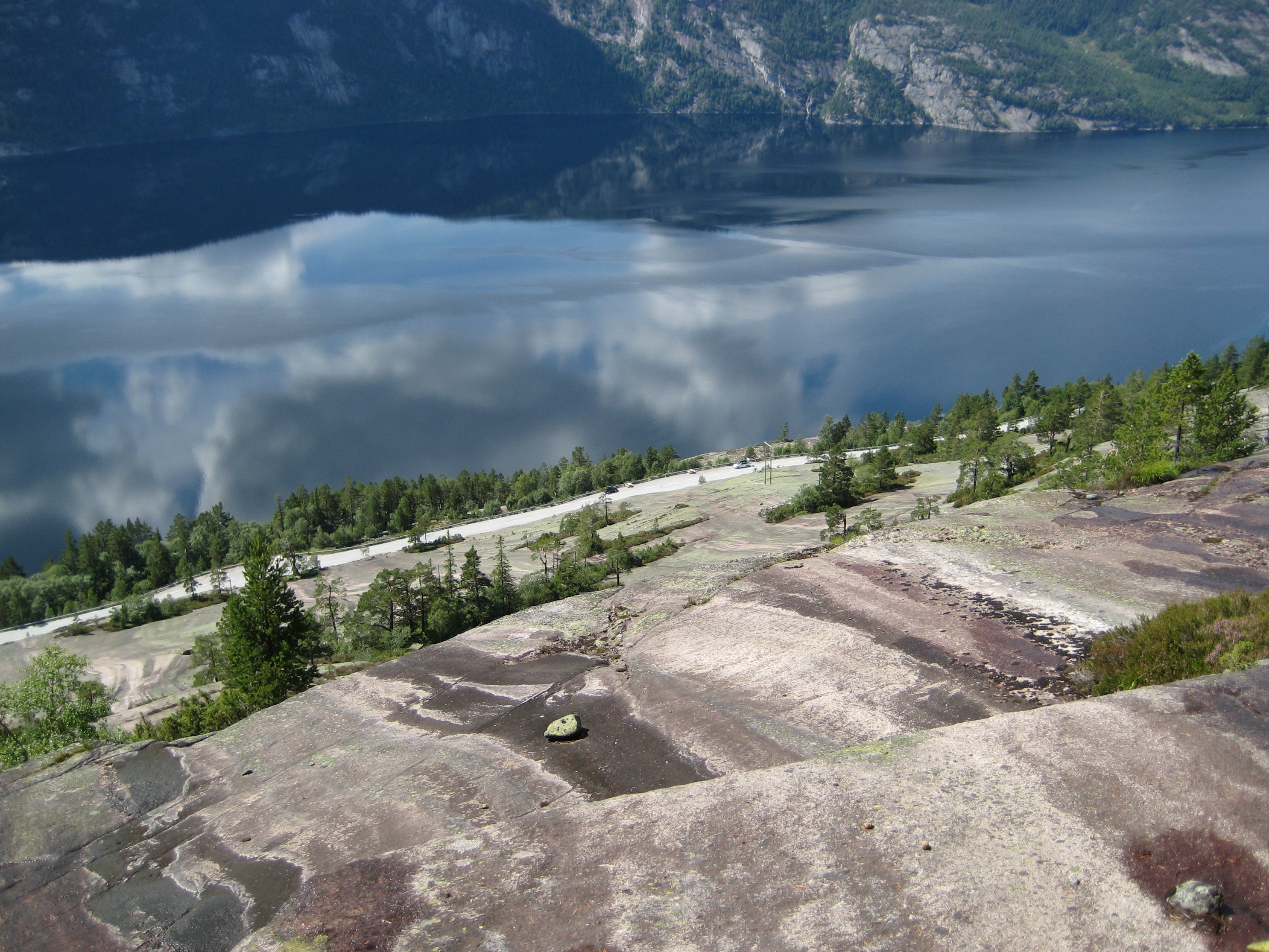 View of Fyresvatnet from Svåune above the Fyresdal road